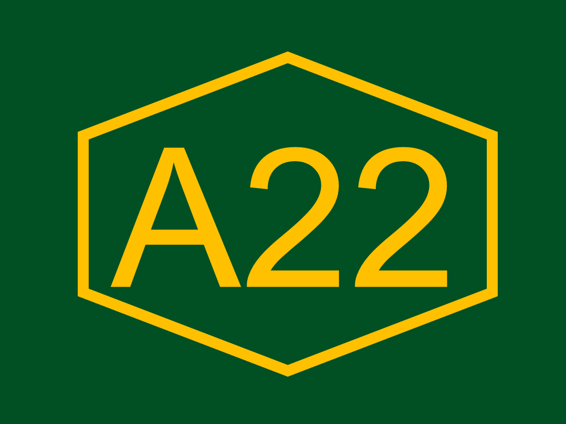 A22 Motorway Cyprus